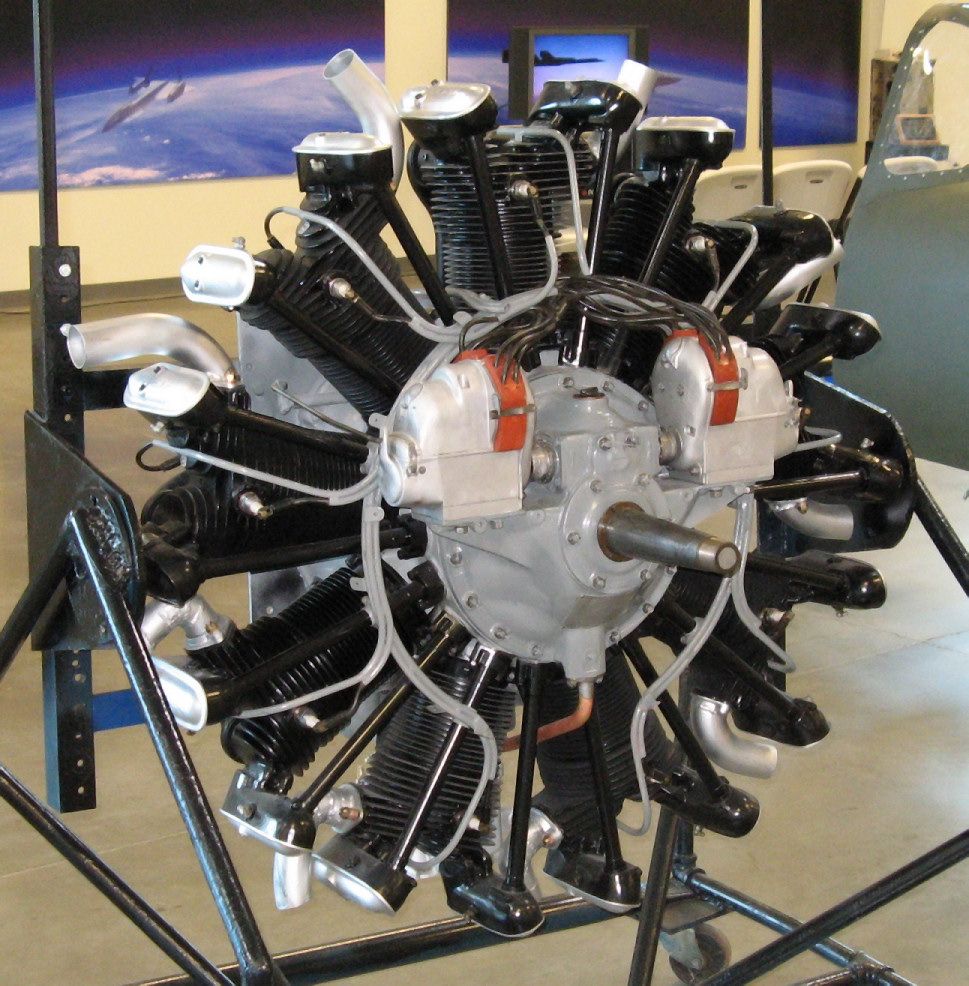 Wright J-5 Whirlwind, Sacramento Aerospace Museum, California